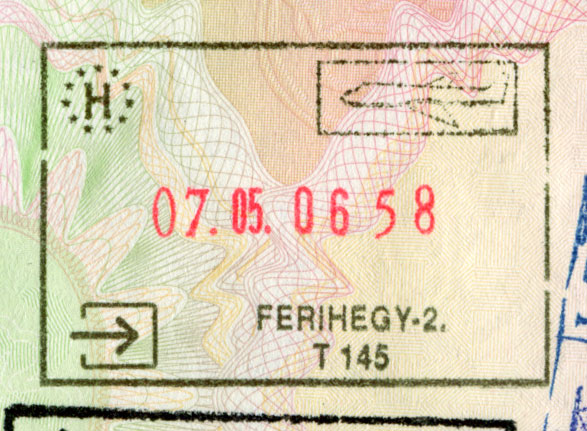 Hungarian passport stamp from Budapest Ferihegy Airport (Terminal 2).